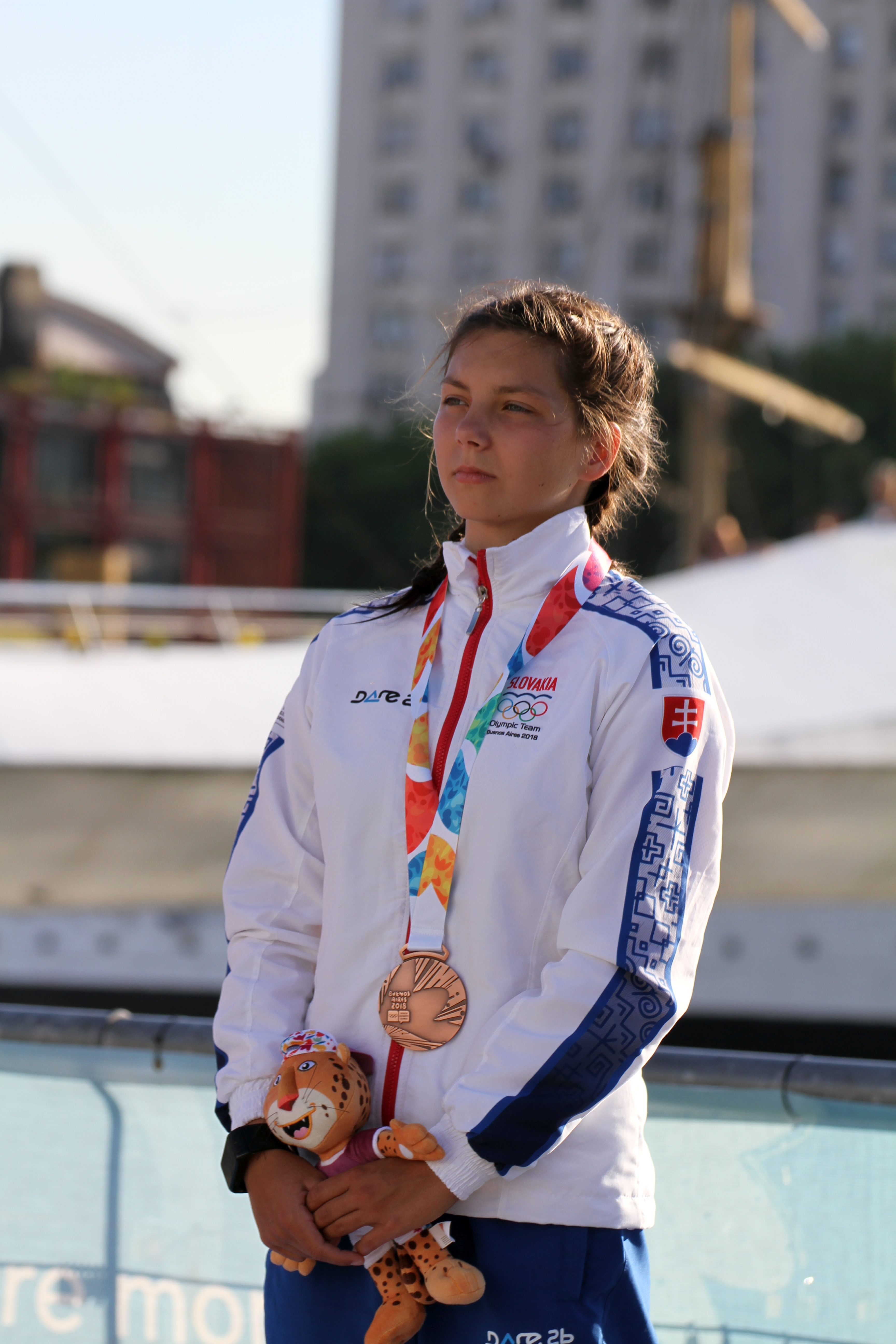 Canoeing at the 2018 Summer Youth Olympics at 16 October 2018 – Girls' C1 slalom Gold Medal Race: Doriane Delassus (France, gold) - Zola Lewandowski (Germany, silver) - Emanuela Luknárová (Slovakia, bronze)